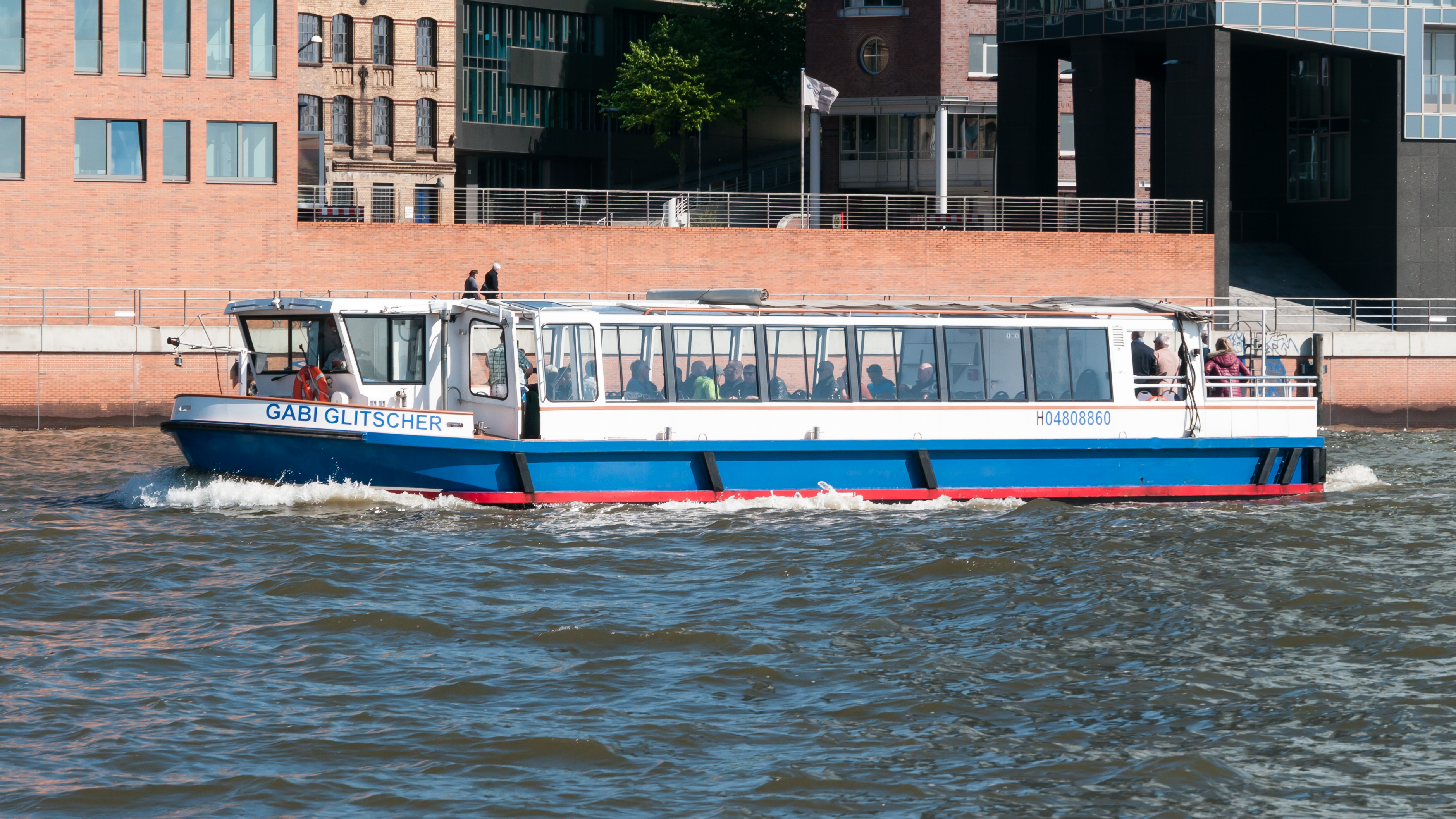 Barkasse “Gabi Glitscher” in the port of Hamburg